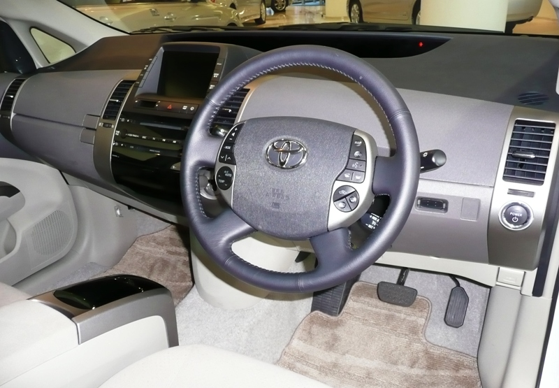 Toyota Prius interior.